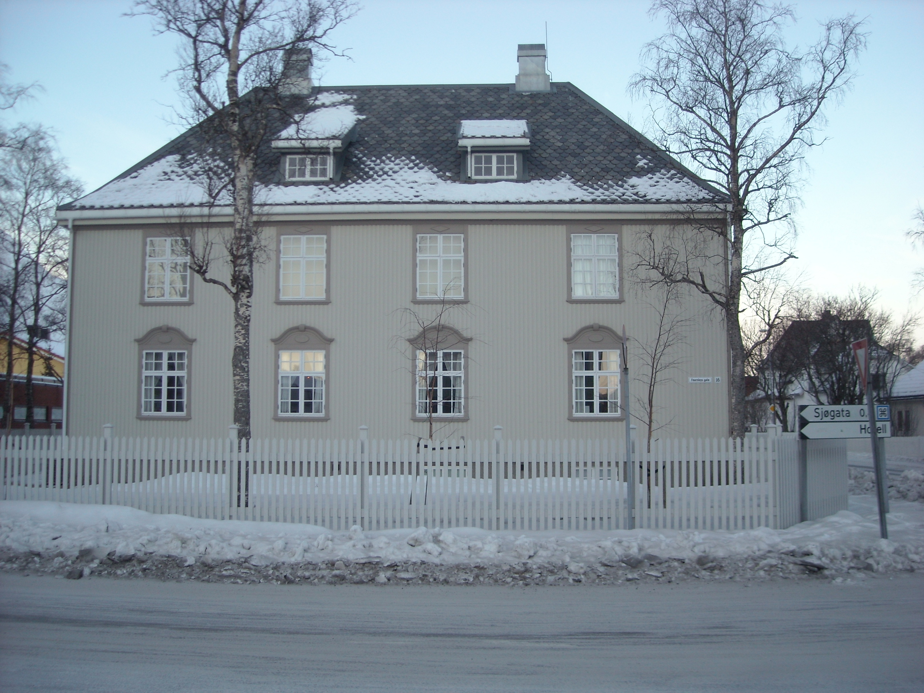 Stiftsgården, Mosjøen in Norway. Masonic lodge.